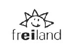 KAG Logo 1975